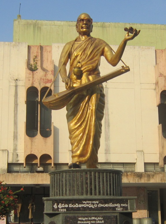 Statue of Sripati Panditaradhyula Sambamurthy